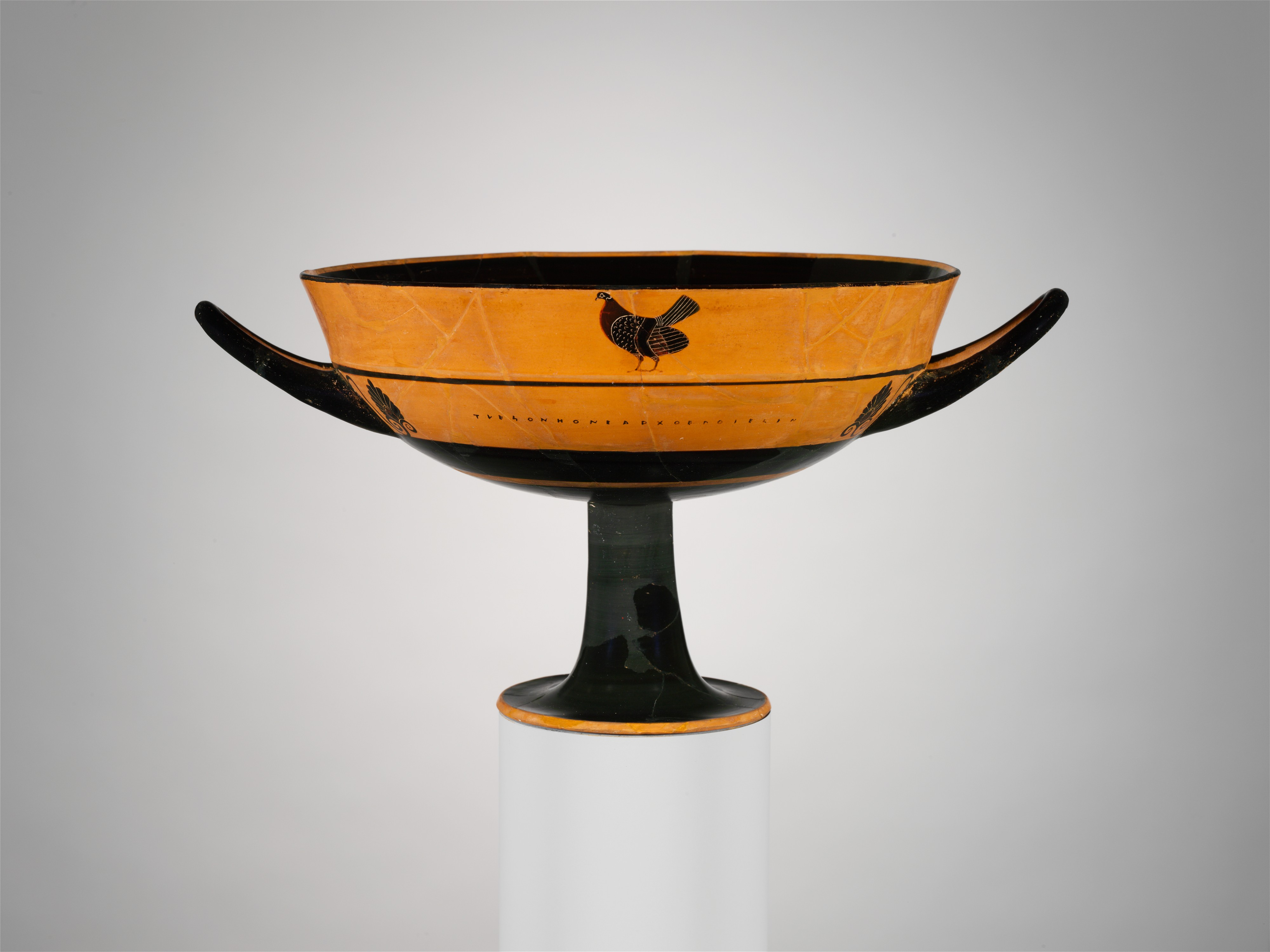 Greek, Attic; Kylix, lip-cup; Vases